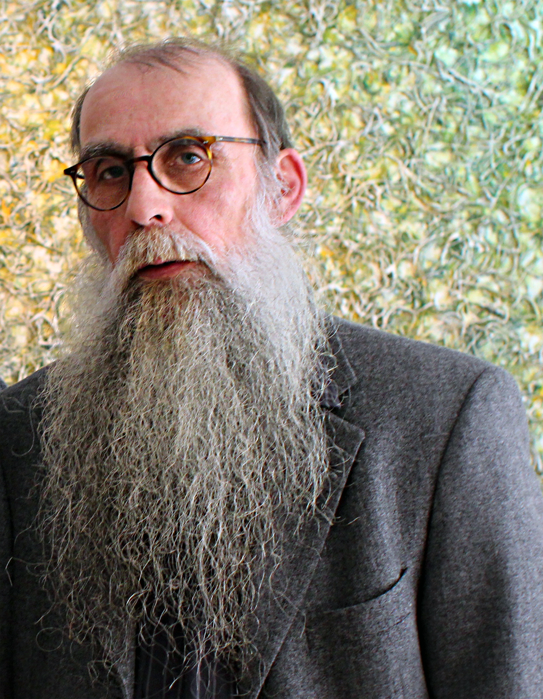 Heinz Cymontkowski